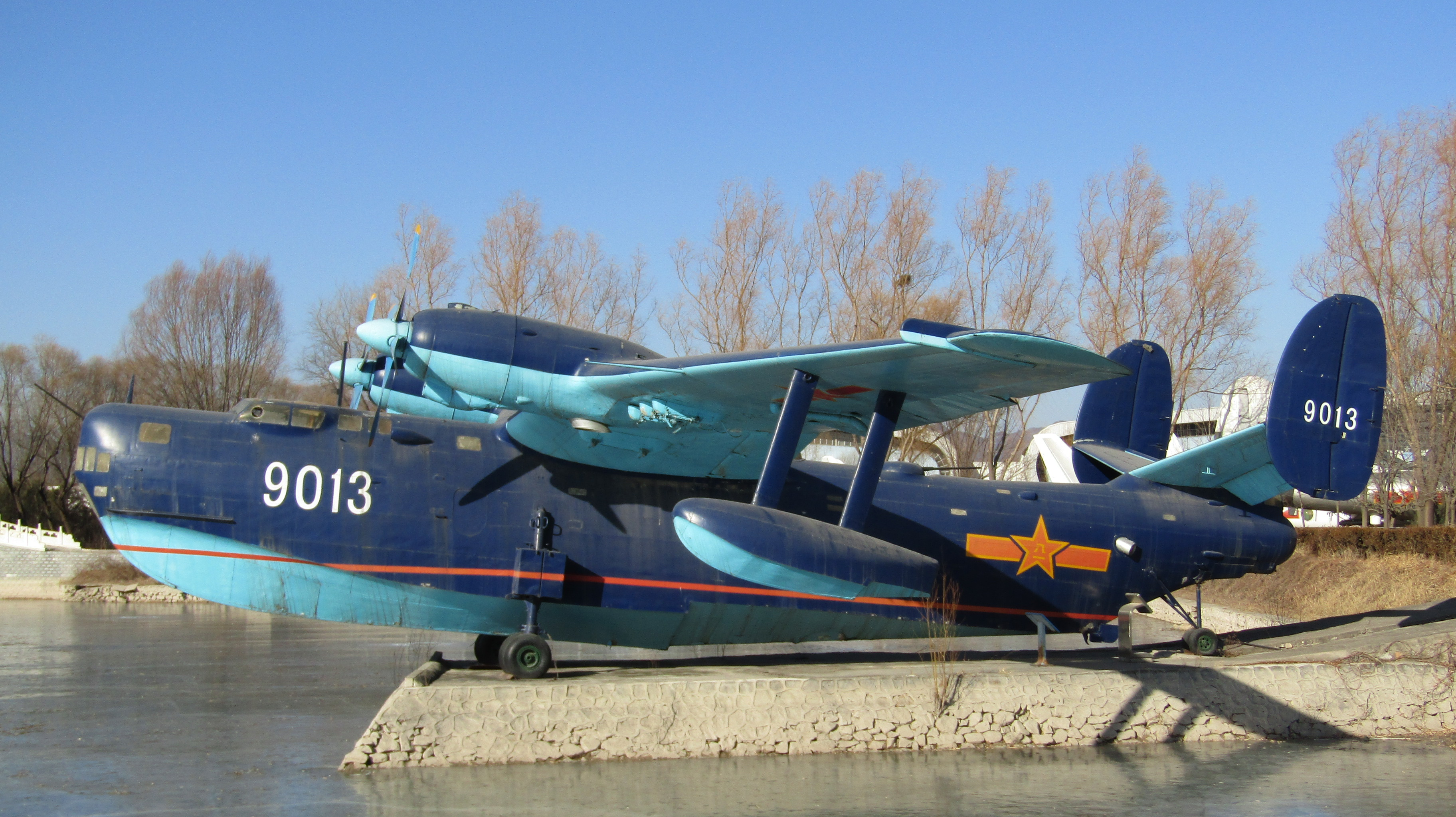 Beriev Be-6 on display at China Aviation Museum